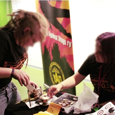 Music Against Drugs stand